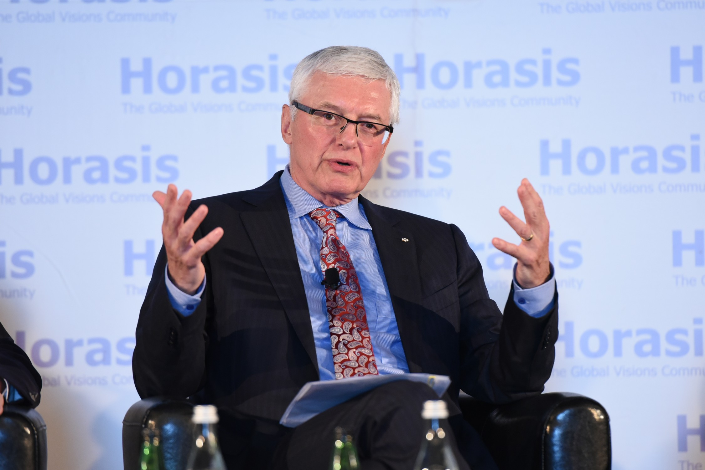 Horasis Global Meeting 2017, Cascais, Portugal, 27-30 May